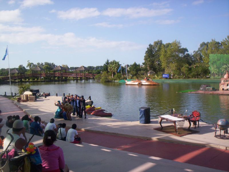 The 20,000 Leagues Under the Sea show at Mundo Marino. San Clemente del Tuyú, Argentina